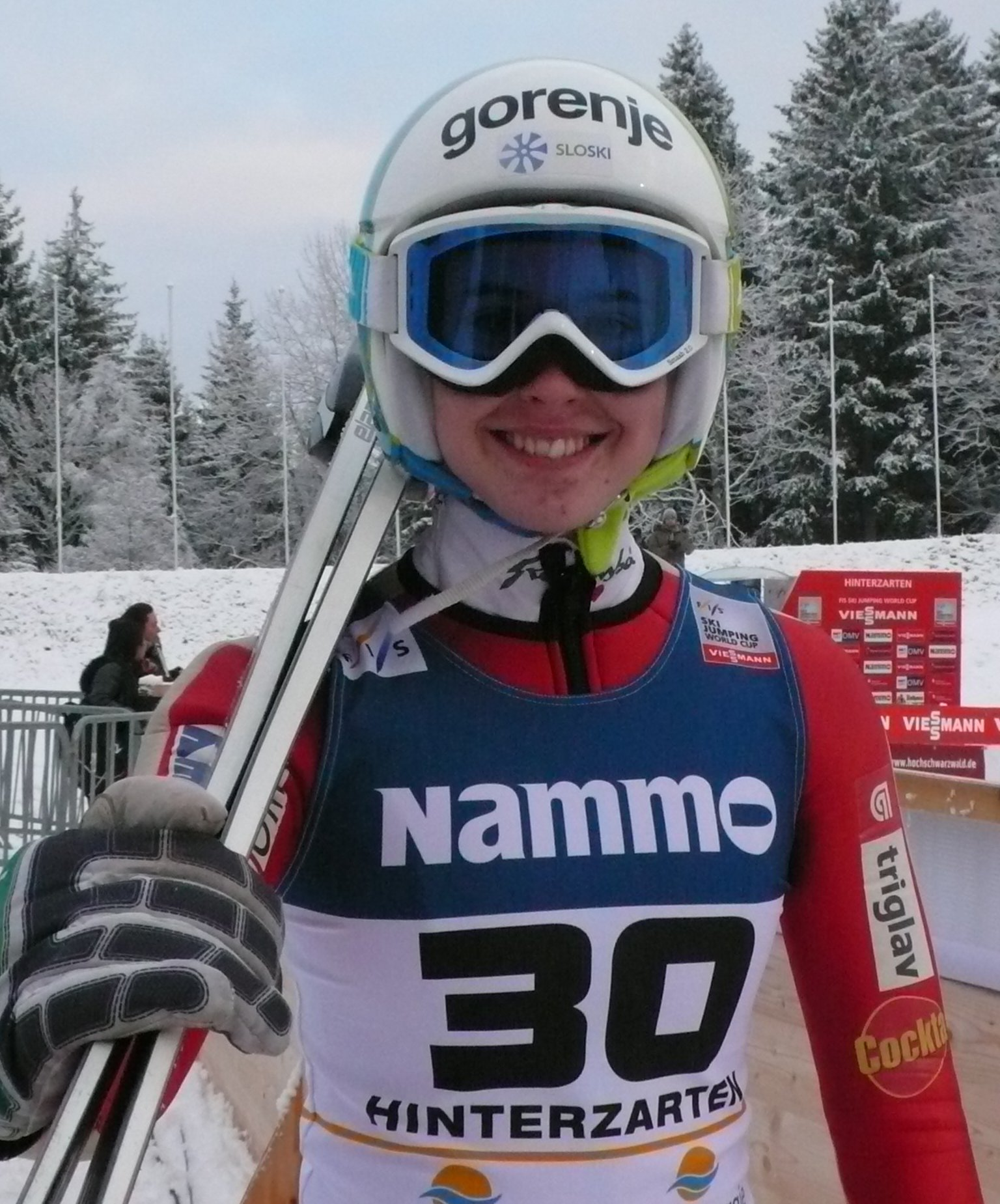 Urša Bogataj